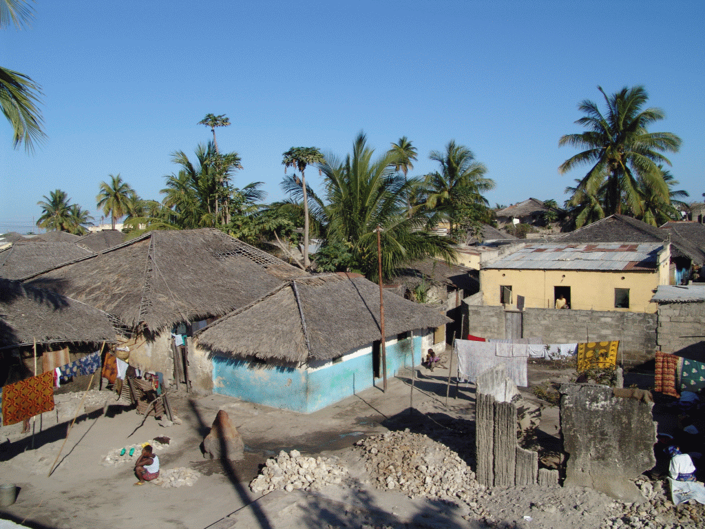 photo of Makuti Town on the Island of Mozambique. photo taken with a Sony DSC-F828 on 26 August 2004, 11:01:03.